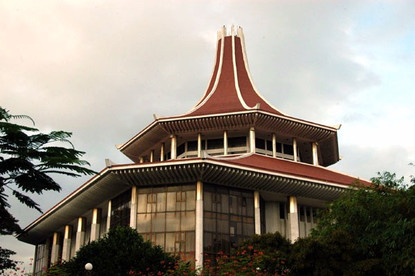 Created by me Licensing Bild:SupremeColombo.jpg